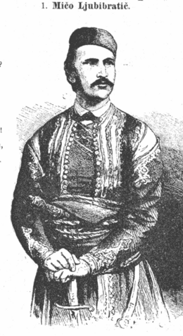 Portrait of Mićo Ljubibratić (1839-1889), a Serbian military leader in an anti-Turkish uprising in Hercegovina.